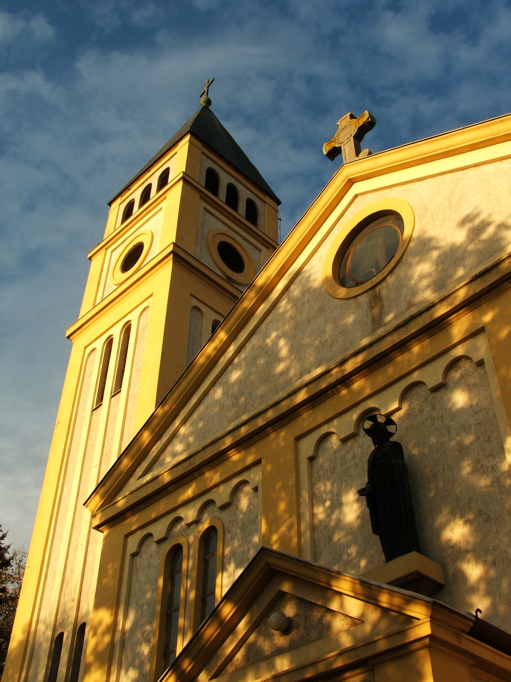 Heart of Jesus catholic church, Szentes, Hungary